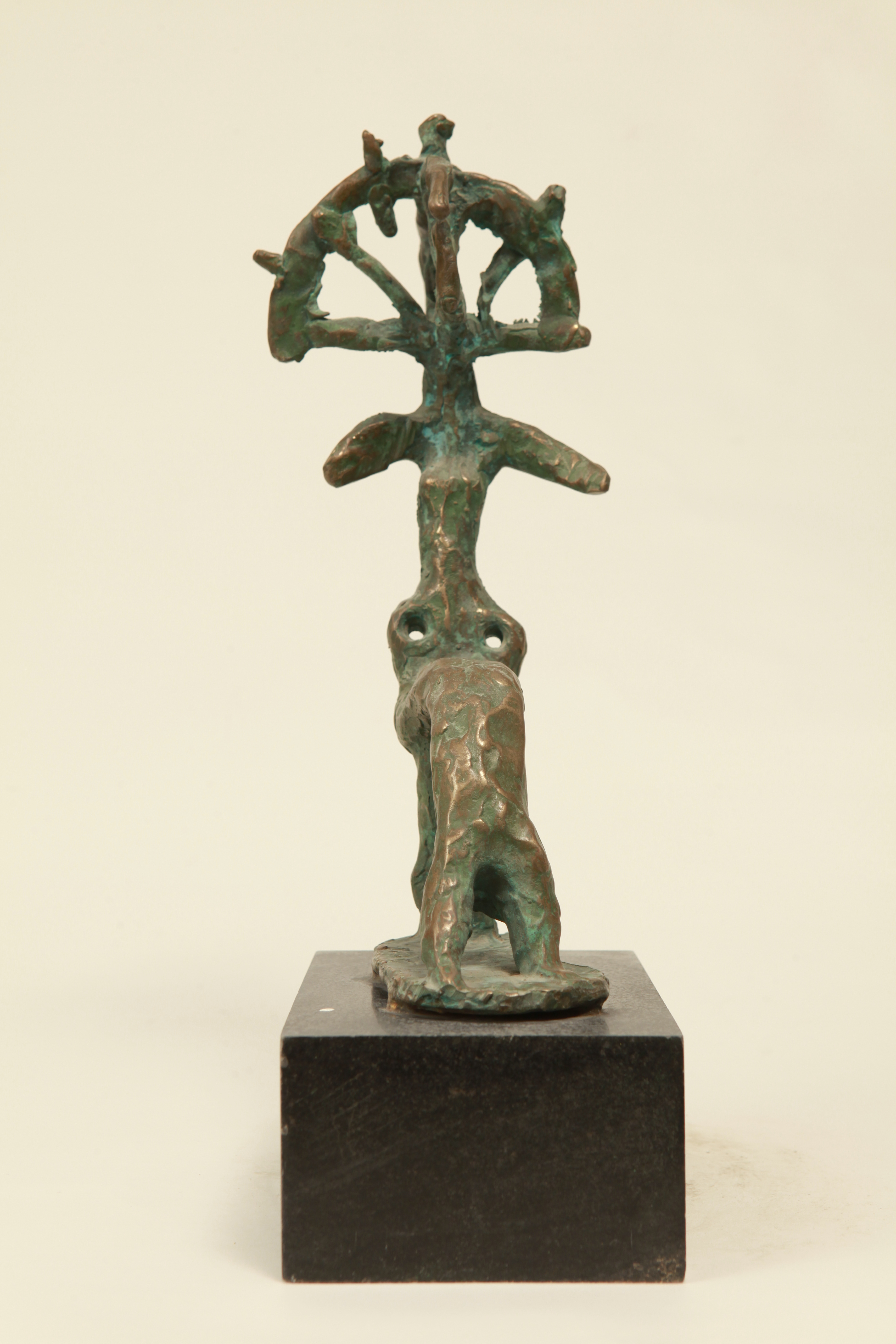 Tutor Cataraga art work, The Man-Bird made in 1994, bronze-granite.